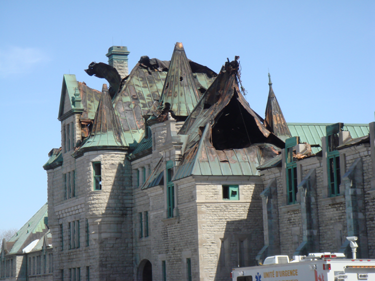 This picture was taken in the immediate aftermath of the fire at the Quebec Armoury, Québec City, Canada, April 2008.